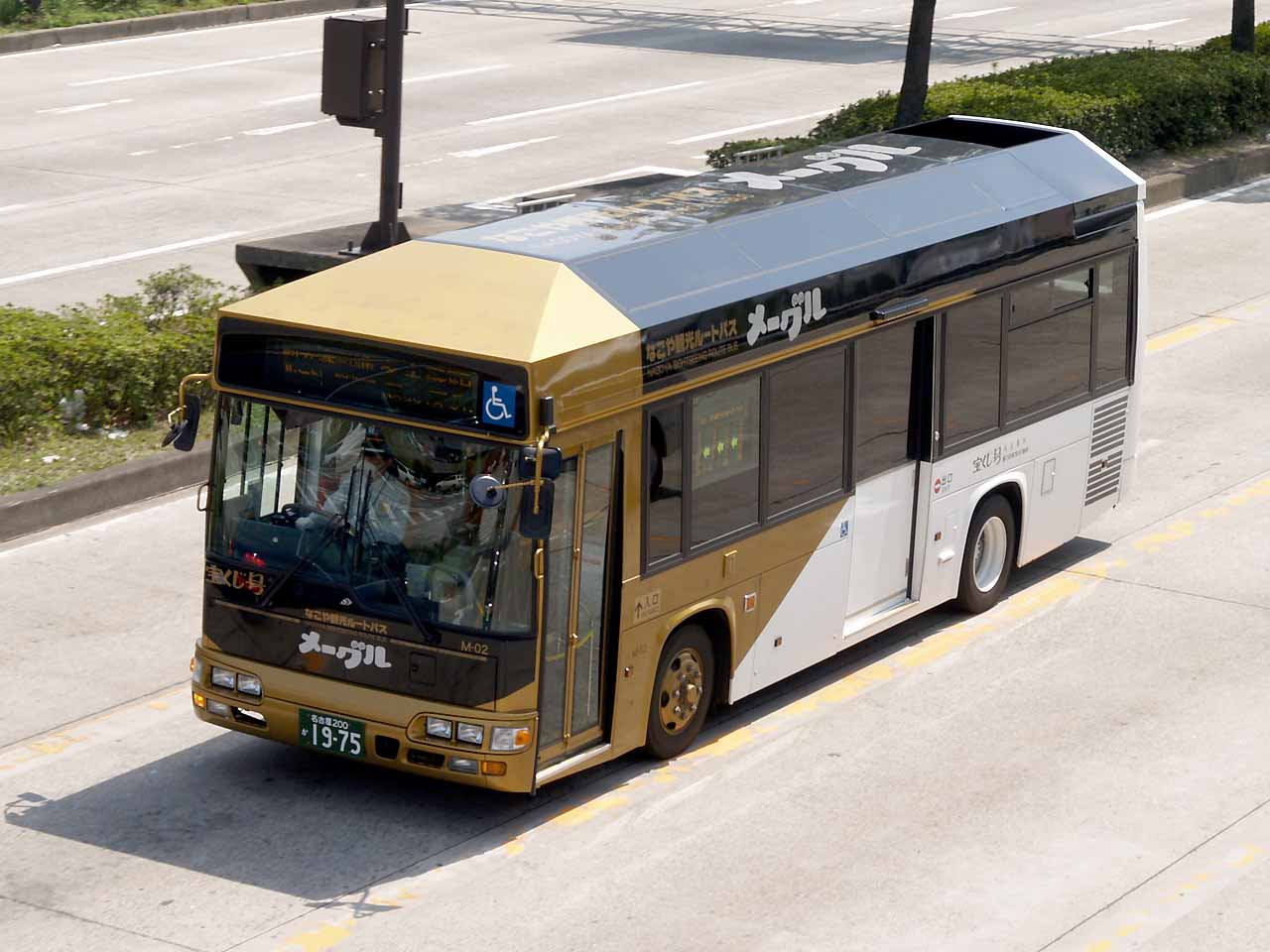 Nagoya city sightseeing route bus "Me~guru". Model: Hino Rainbow PB-HR7JHAE Customized: Tokyo Special Coach License plate: ACN200 KA1975（名古屋200か1975） Place: Neighbour of Nagoya Castle: Sannnomaru, Naka ward, Nagoya city, Aichi Japan